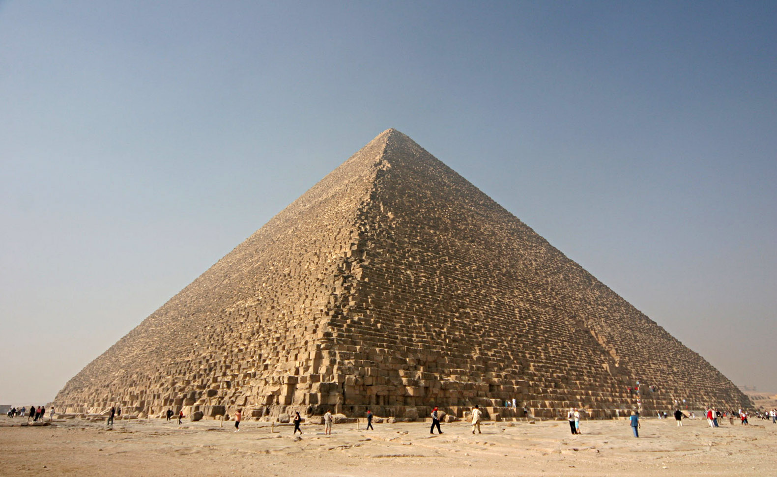 Kheops pyramid